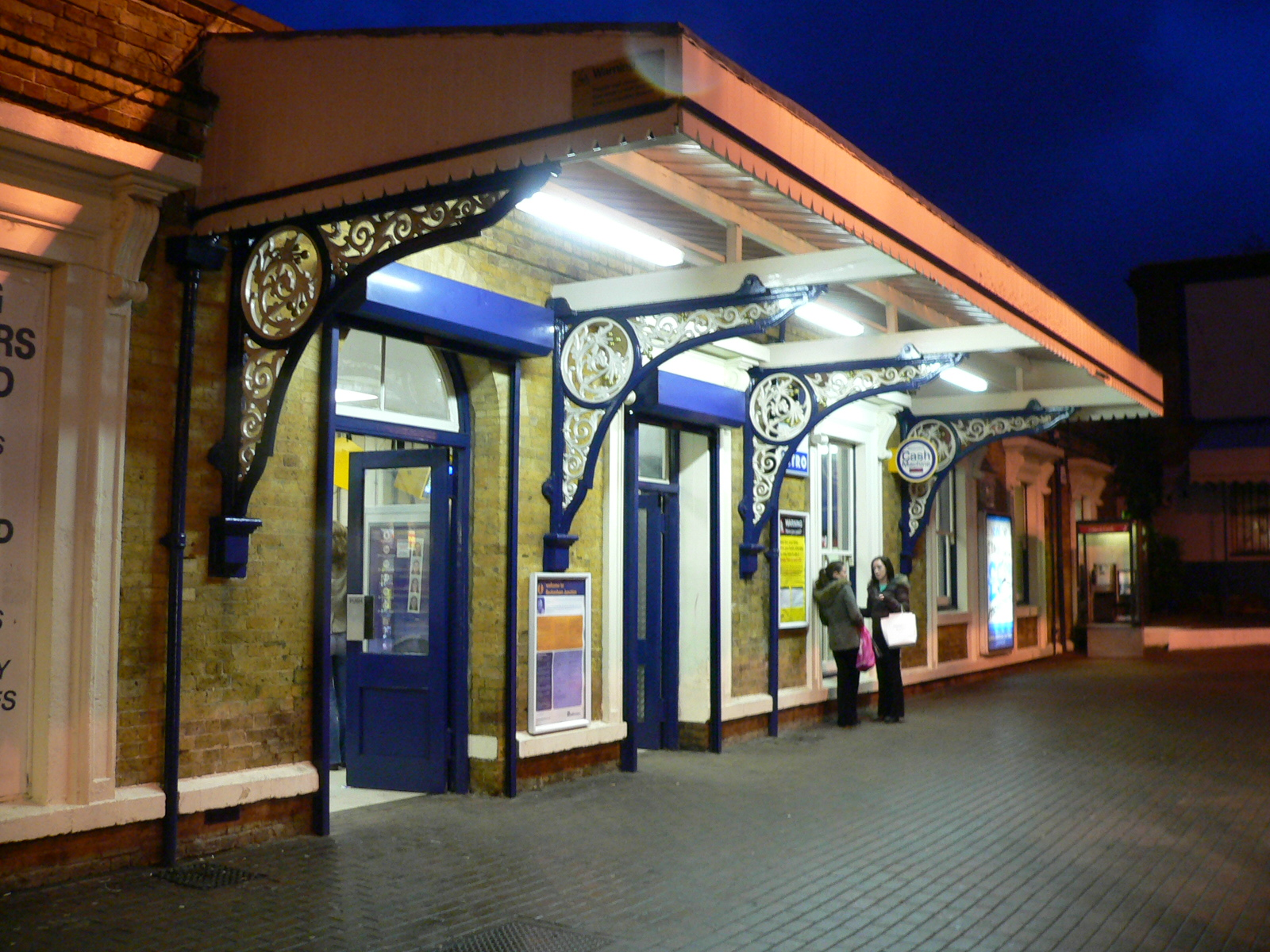 The entrance to Beckenham Junction station in South London on 24 October 2005.